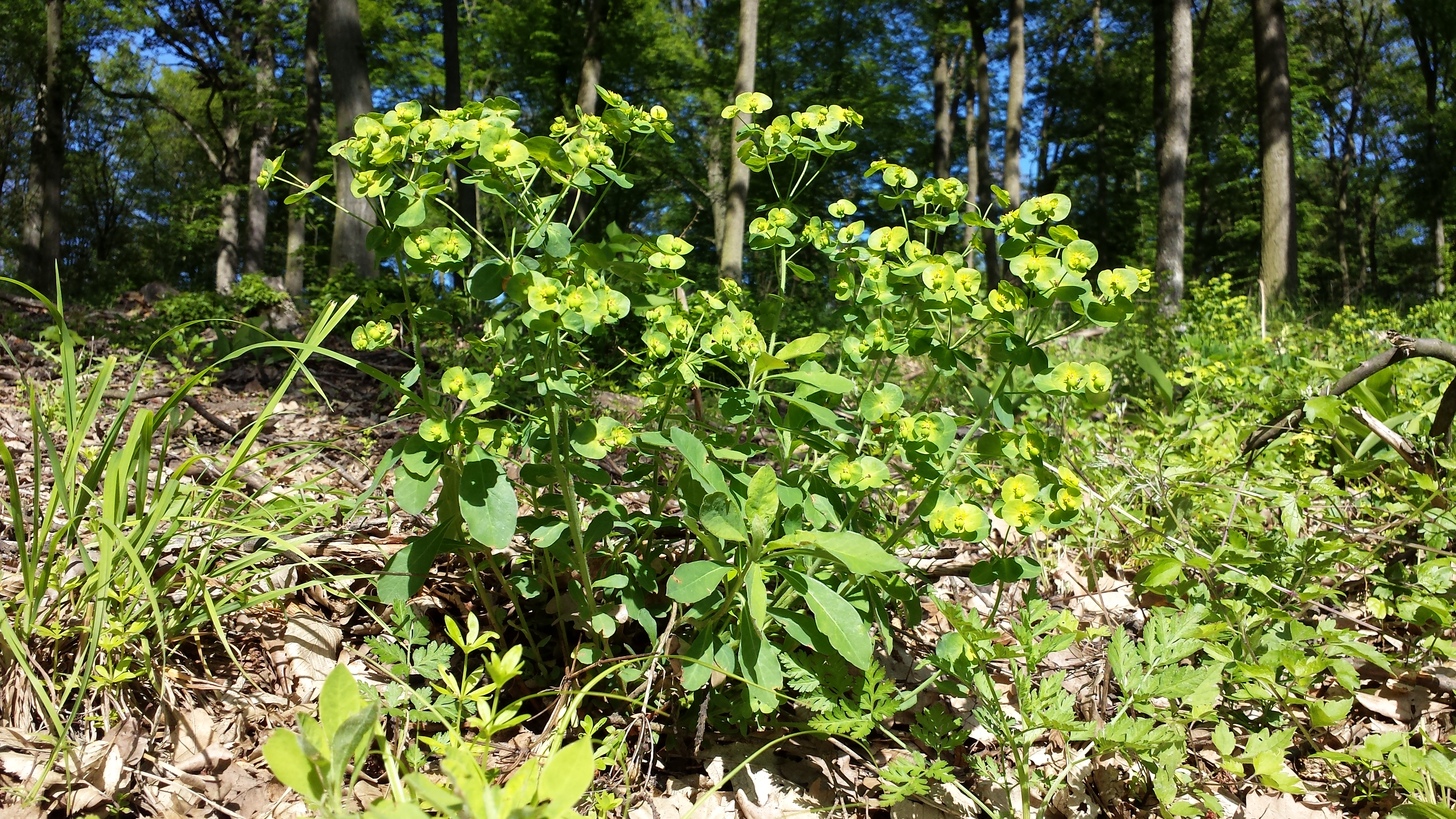 Taxon: Euphorbia amygdaloides Location: Rohrwald, district Korneuburg, Lower Austria Habitat: deciduous forest Identified according to: Fischer et. al. ExFlora Austria etc. 2008